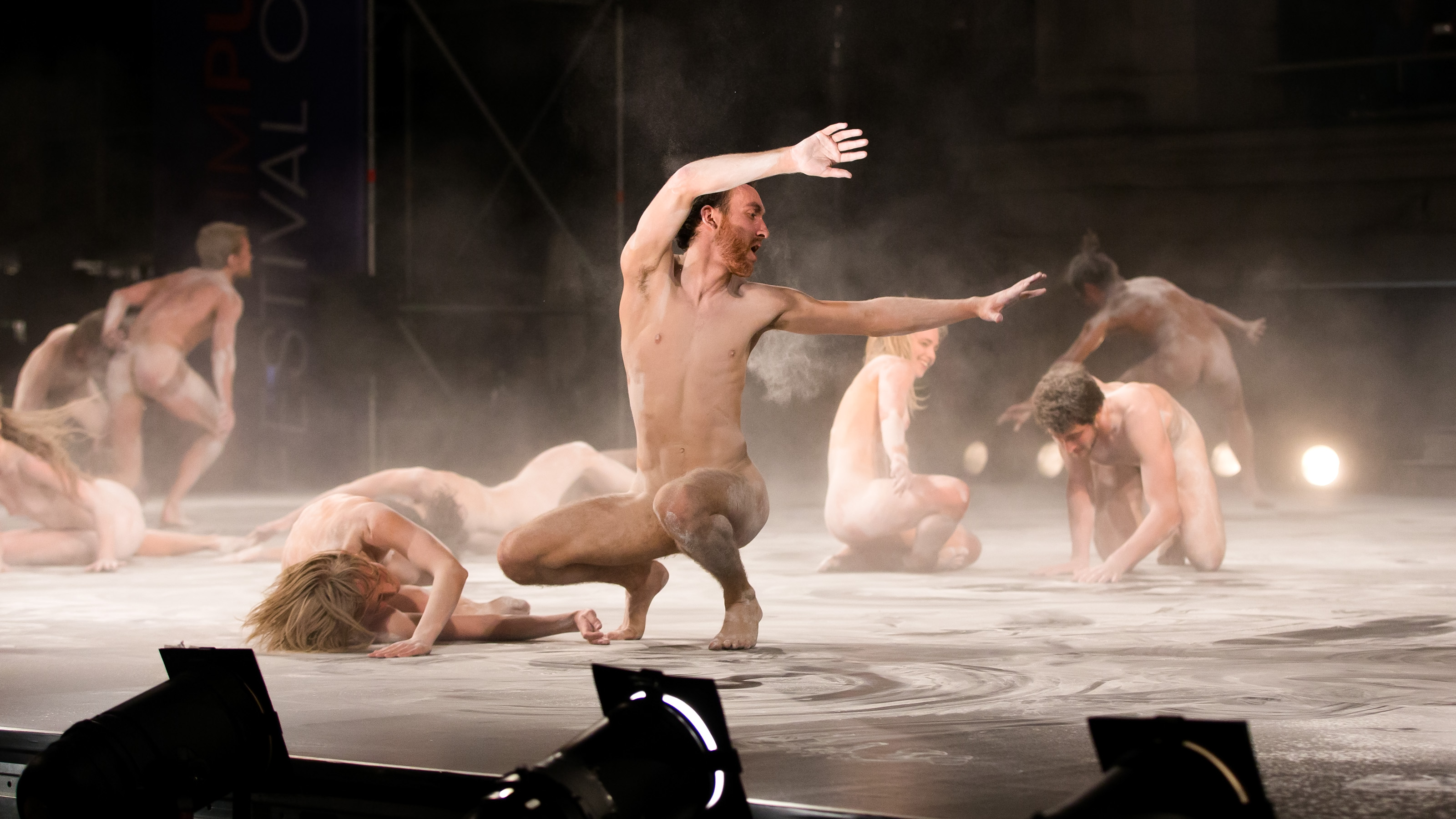 Opening of ImPulsTanz Vienna International Dance Festival 2015 with Hit The Boom (...'cause it's more than summer!) (choreographer: Doris Uhlich) at Museumsquartier in Vienna, Austria.